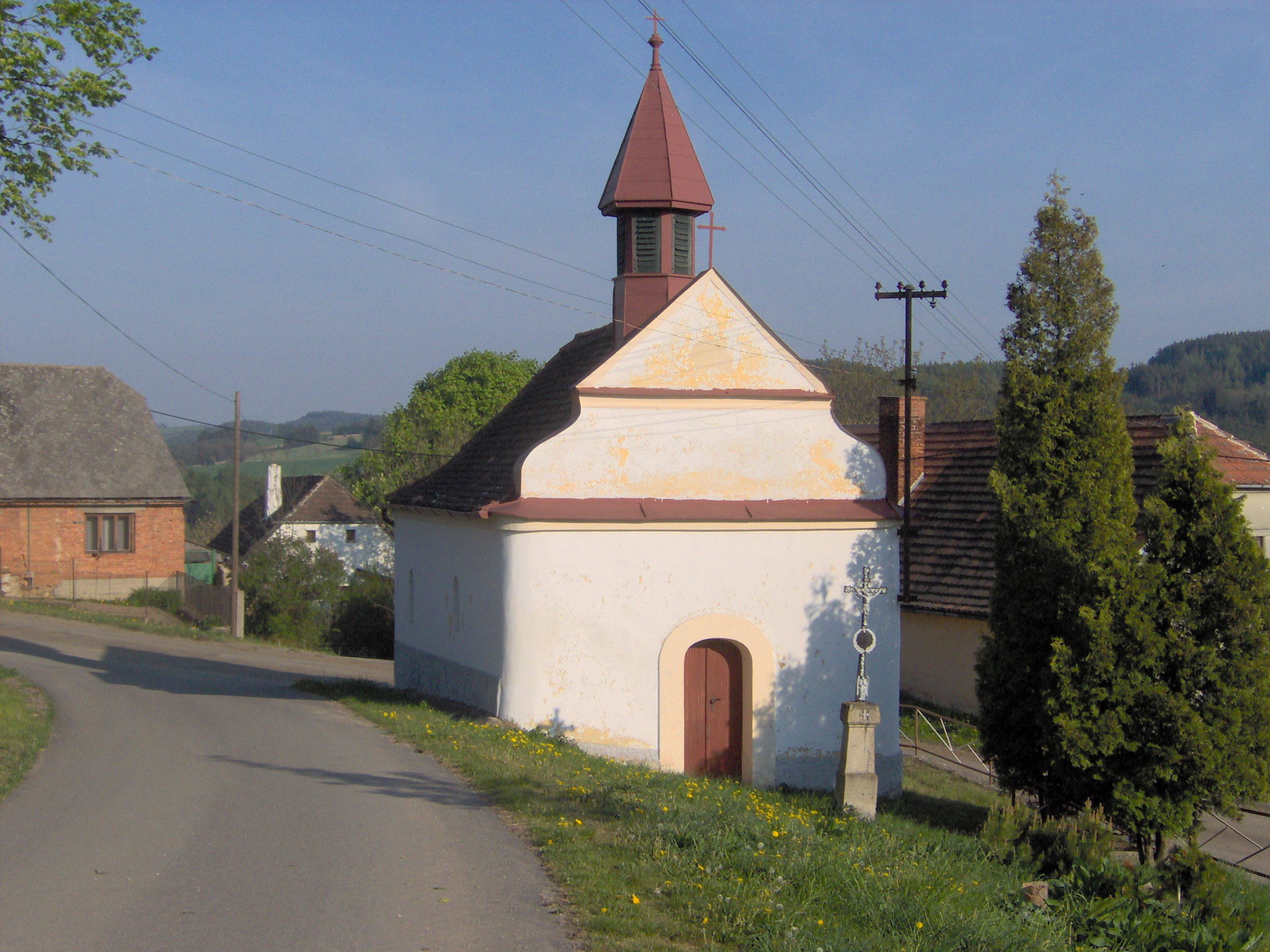 Chapel in Krejnice, Strakonice District, Czech republic